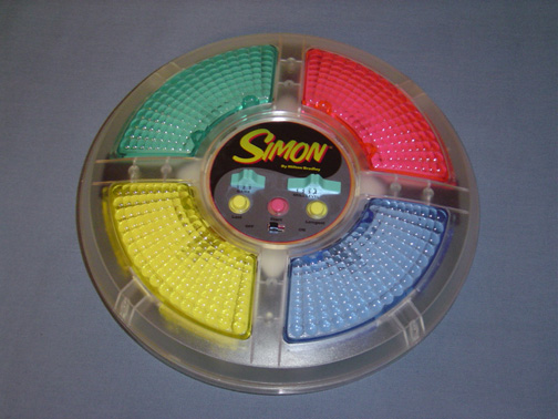 The electronic game Simon (Simon is a trademark of Milton Bradley).